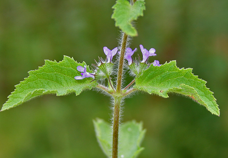 American Mint, Vilayti Tulsi, pignut, stinking Roger, wild spikenard or Darp Tulas Hyptis suaveolens in Hyderabad , India.